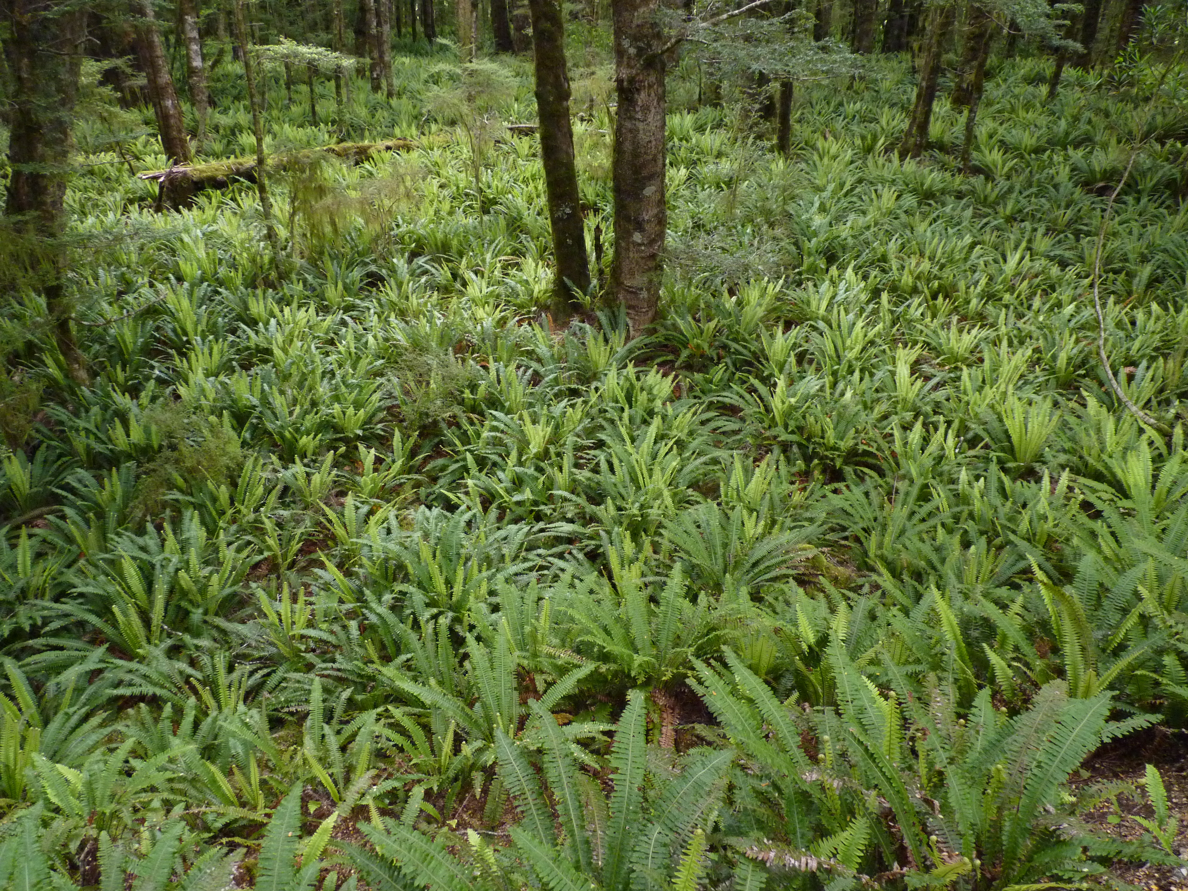 Kepler Track, South Island, New Zealand